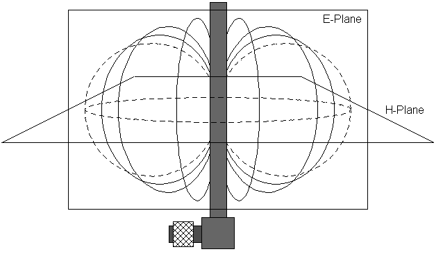 This diagram shows the E and H Planes for an omni-directional antenna.